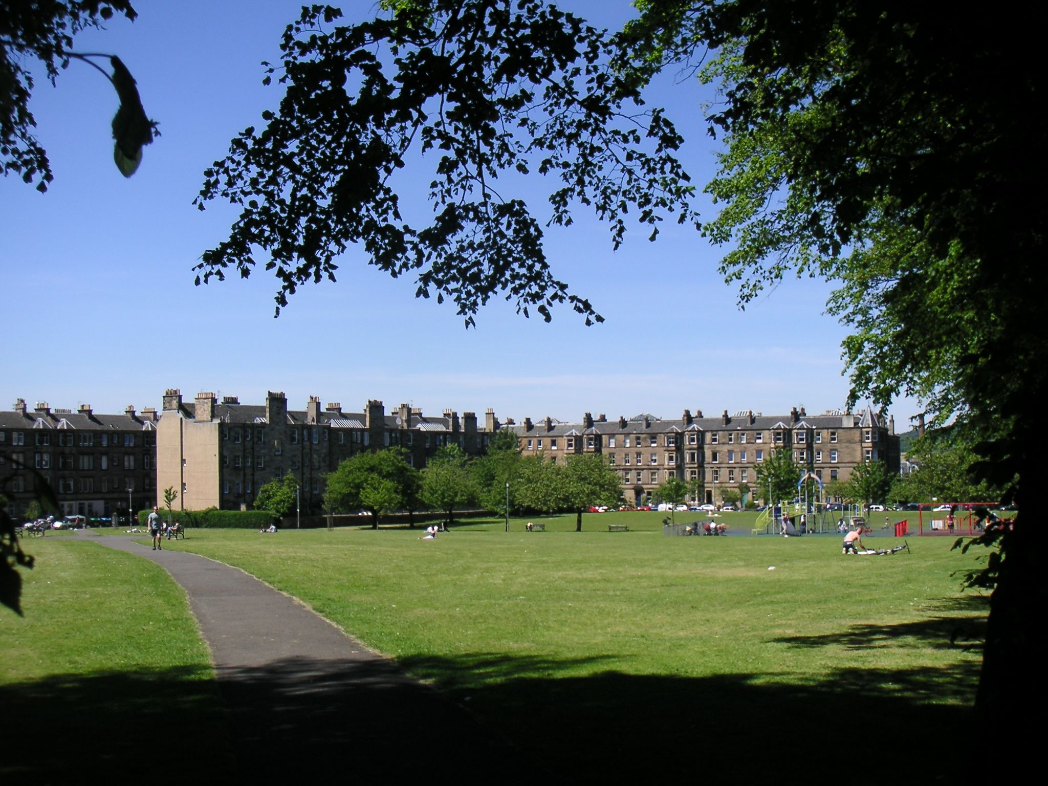 Harrison Park looking NW from the Union Canal